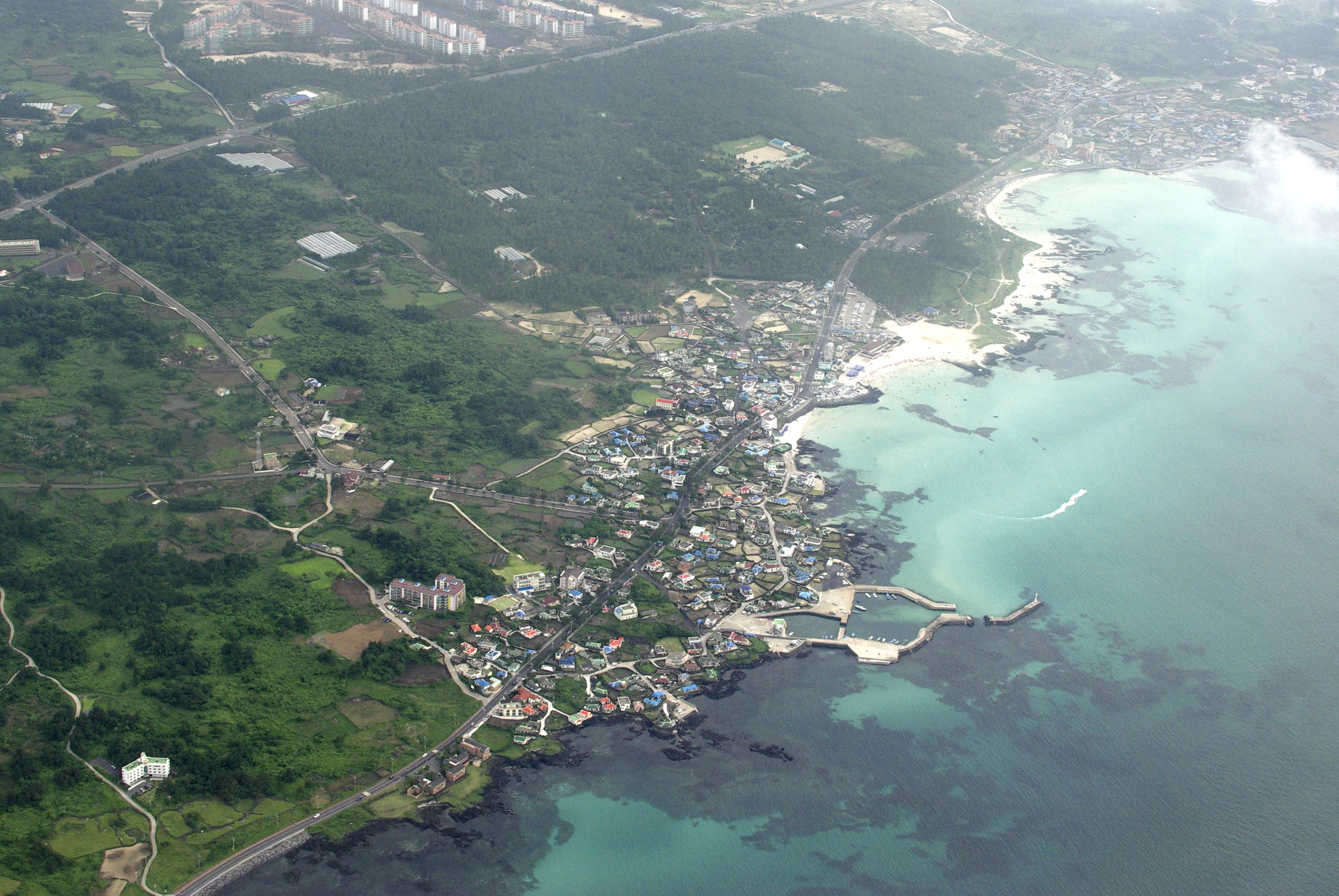 Hyeopjae Beach, Jeju-do. Photo taken on an airplane.